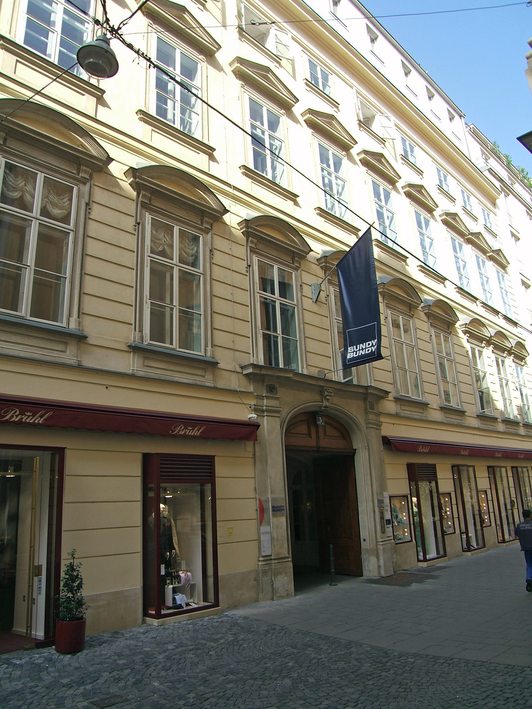 Palais Lamberg-Sprinzenstein in Vienna 1st district, Wallnerstraße 3